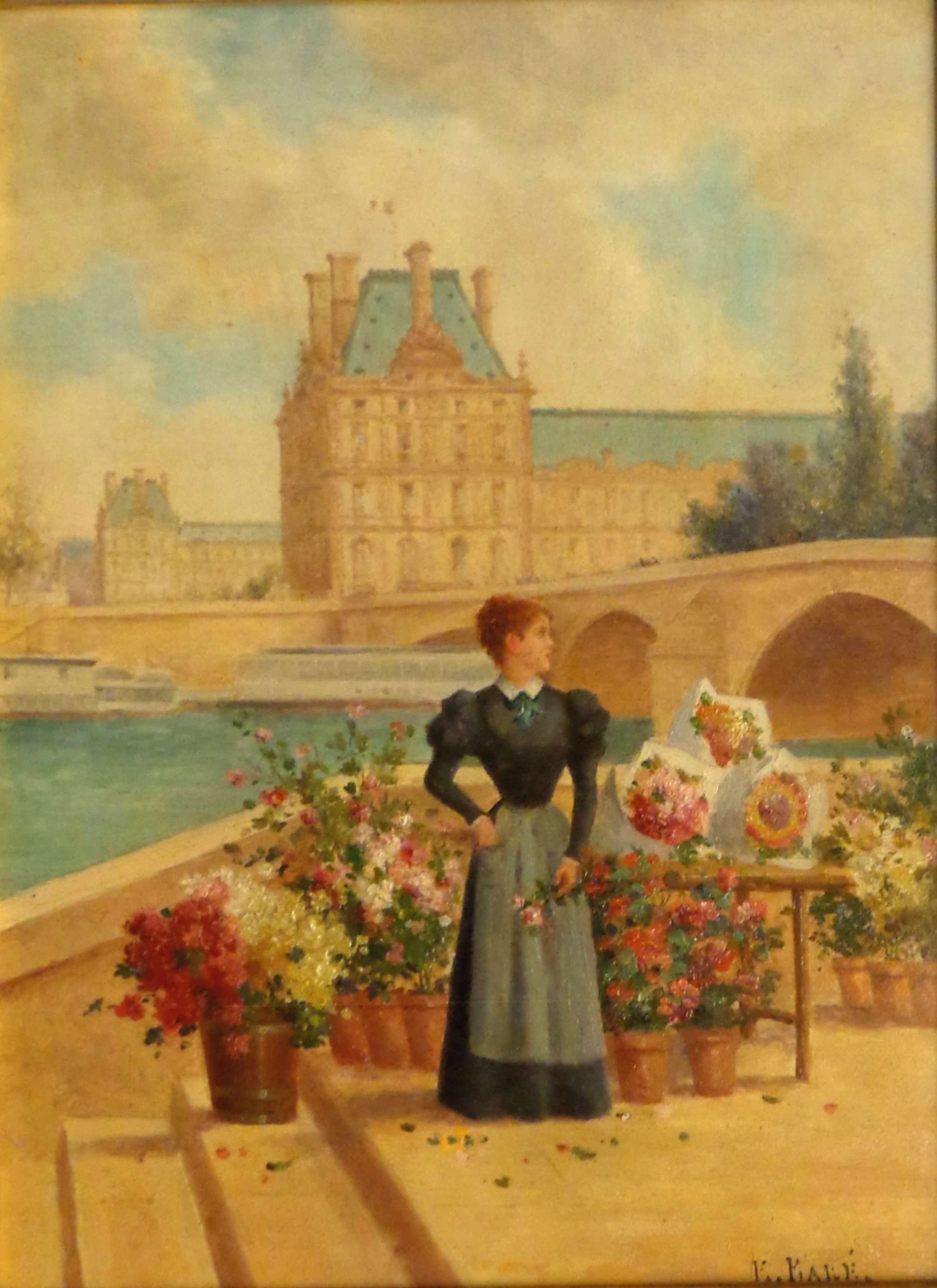 The Florist and the Pavillon de Flore (ca. 1900), by the painter Émile Baré. Oil on wood panel, 16cm x 21 cm, private collection. The florist is standing on the Quay d'Orsay in Paris (this section was renamed "Quay Anatole France" in 1947); in the background, across the Seine, is the Pavillon de Flore, a part of the Louvre; on the right is the Pont Royal.